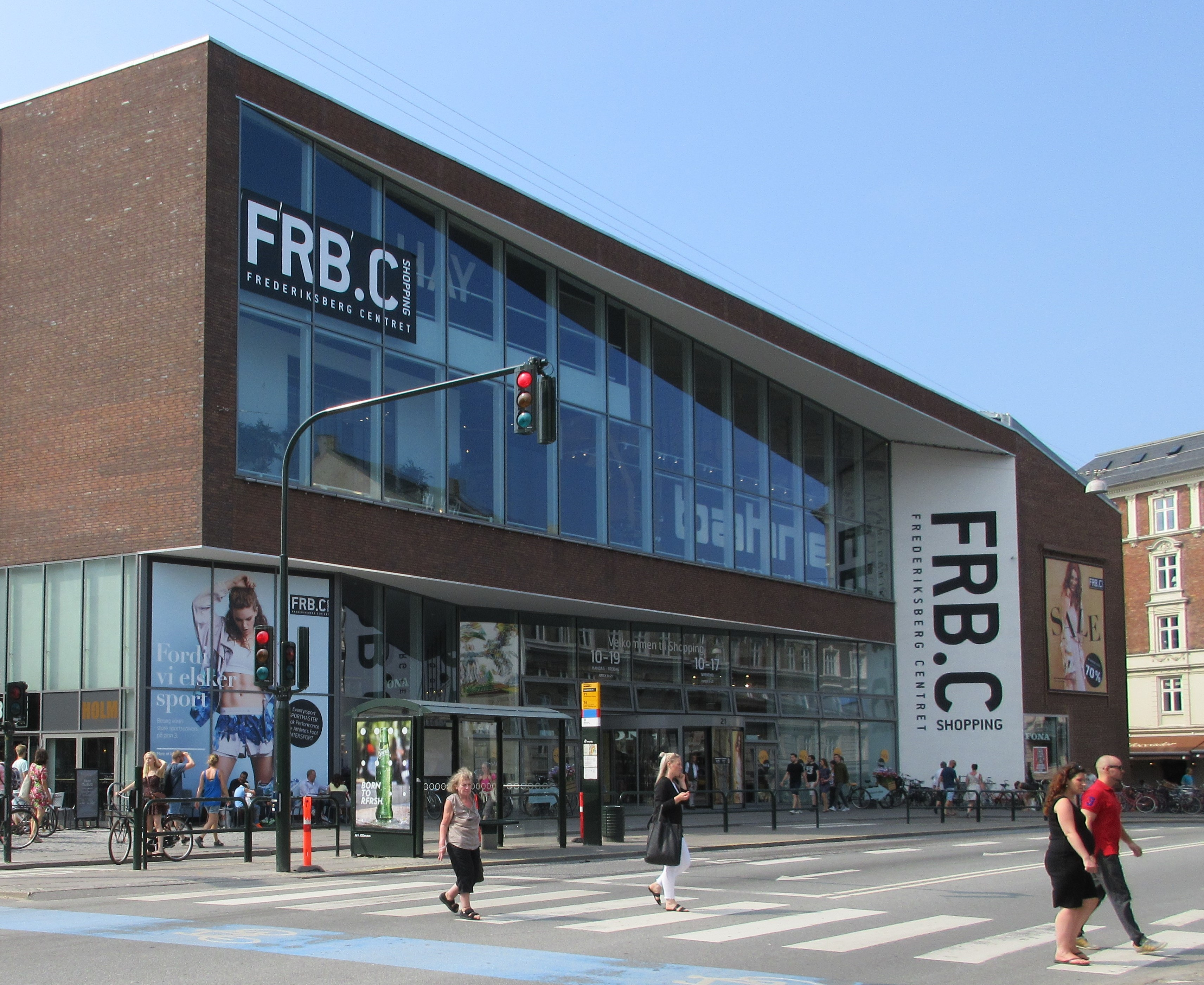 Frederiksberg Centret in Frederiksberg, Copenhagen, Denmark